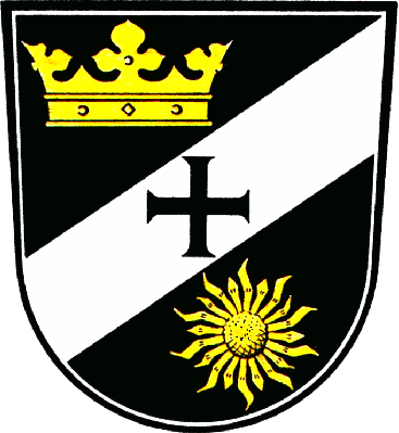 Coat of Arms of Motten